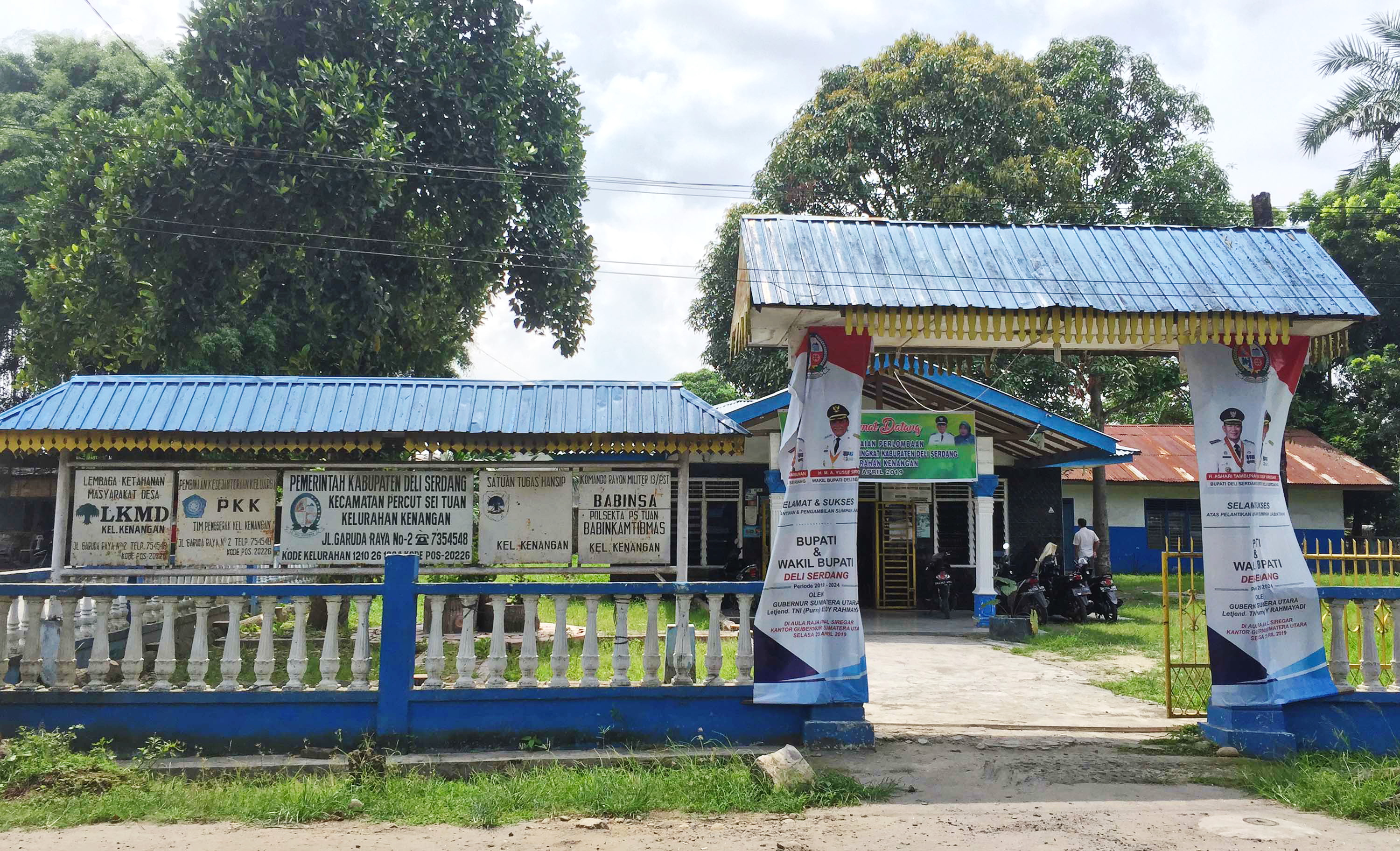 Office of Kenangan, Percut Sei Tuan, Deli Serdang